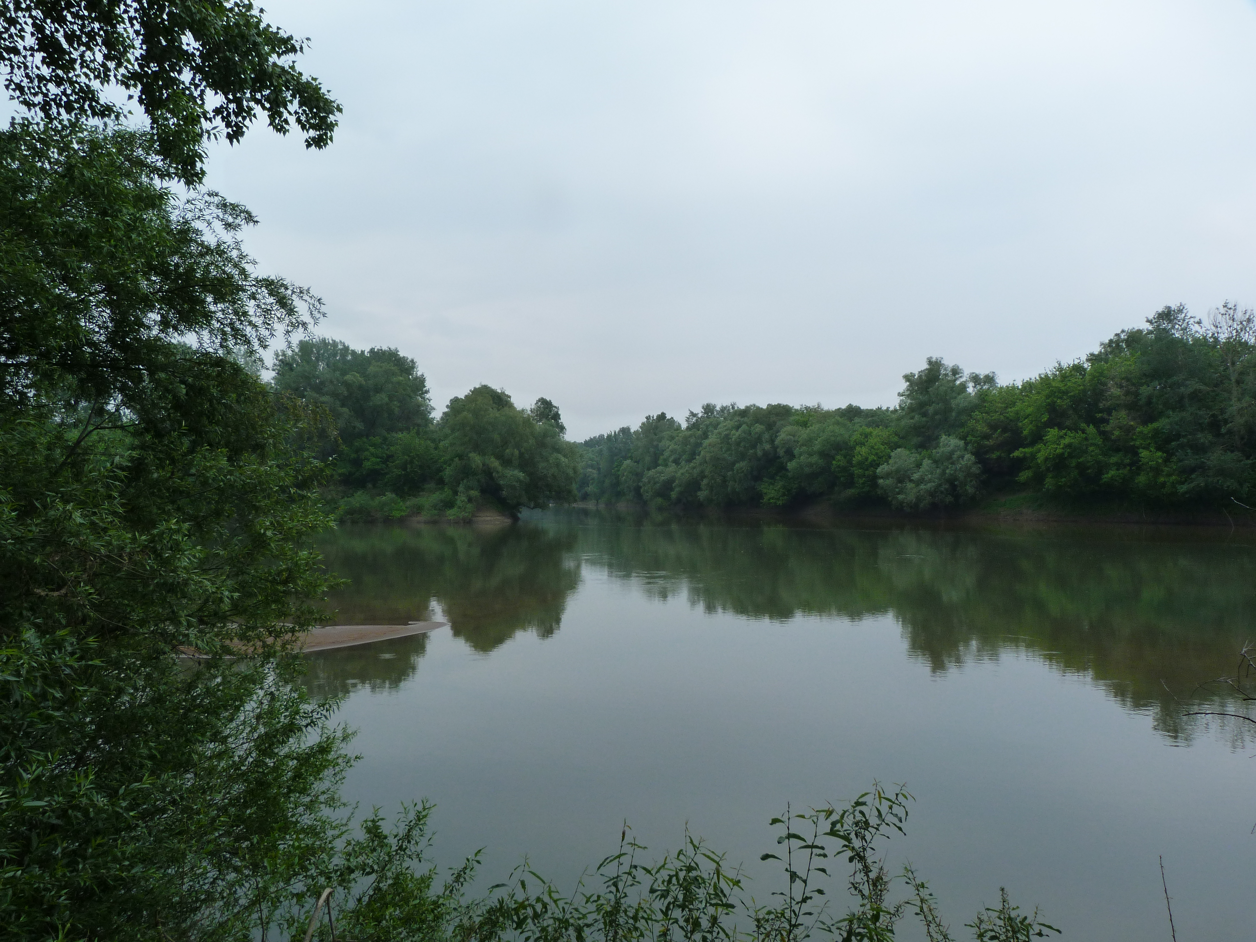 Live on the 15th of May, 2013. Gergelyiugornya (Vásárosnamény), Hungary, Central Europe. The point where Szamos river joins Tisza river.©© Derzsi Elekes Andor, Budapest, 2013, You are authorised to use this vid under Creative Commons – even for commercial, for profit - purposes. The vid must be attributed to Derzsi Elekes Andor. All of the photos and vids in the Metapolisz DVD line are under Creative Commons and can be used even for commercial – for profit – purposes. Recommended Citation Derzsi Elekes Andor: Metapolisz DVD line Sources: szamostura.hu, vasarosnameny.hu, A Szamos és a Tisza összefolyása - 2013 A felvételek 2013. Május 15 –én szerdán készültek Gergeilyugornyán (Vásárosnamény közigazgatási területe). A Szamos és a Tisza összefolyása. Források: szamostura.hu, vasarosnameny.hu Conflux of the Tisza and Szamos rivers - 2013